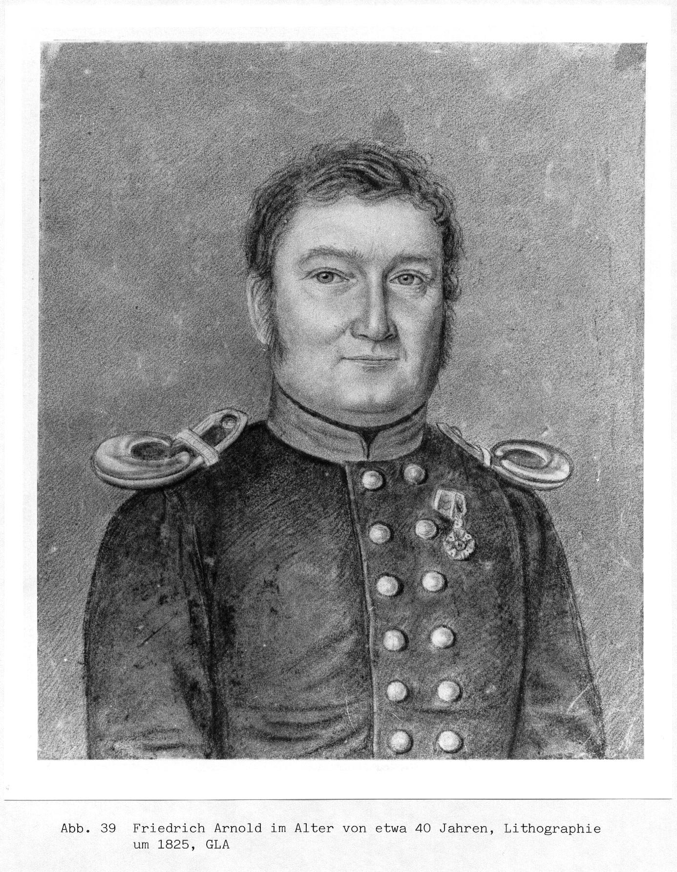 Friedrich Arnold, architect, aged aboput 40 years, lithography by an unknown artist around 1825